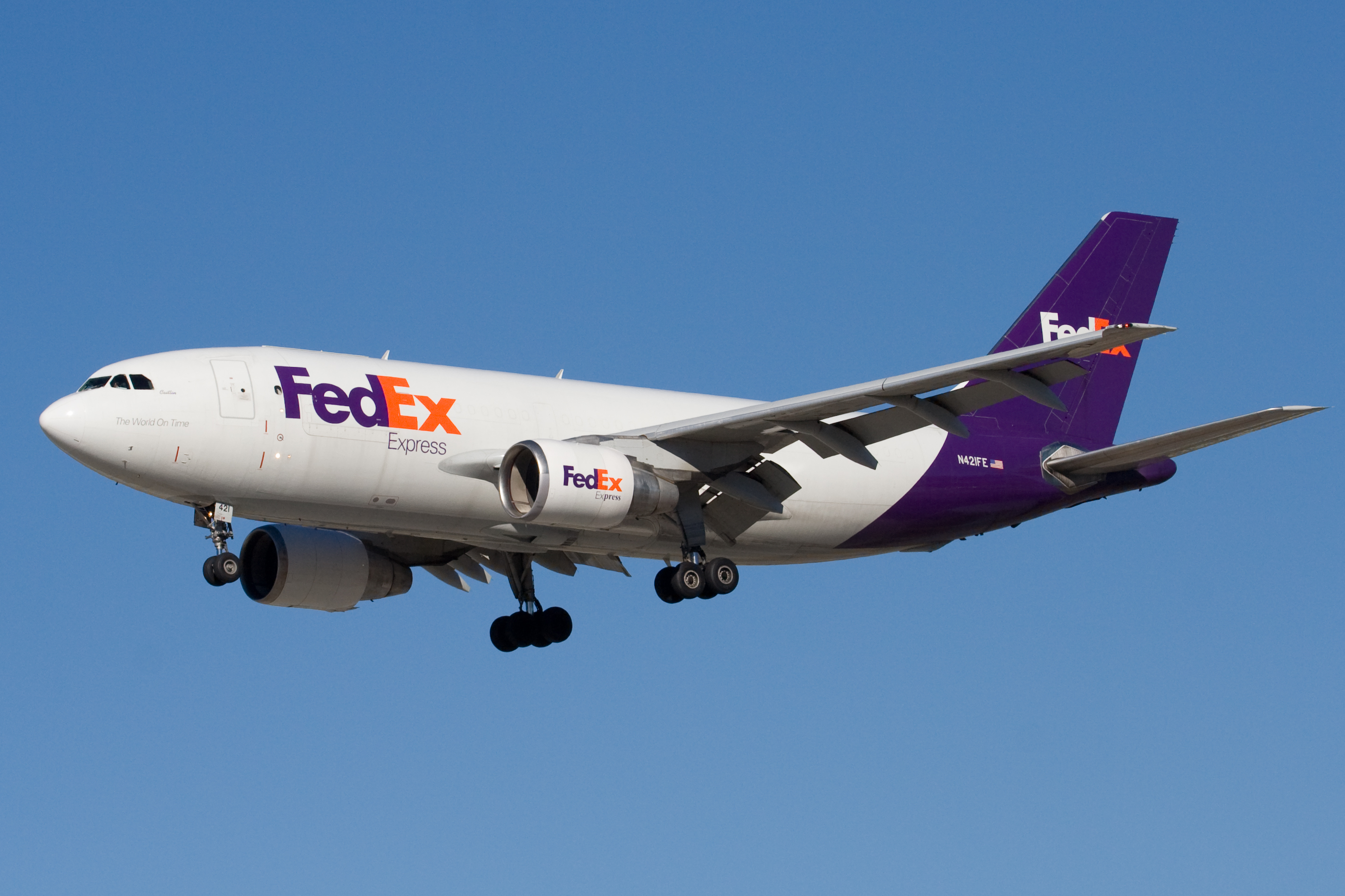 A FedEx Express Airbus A310-200, N421FE, landing at San Jose International Airport